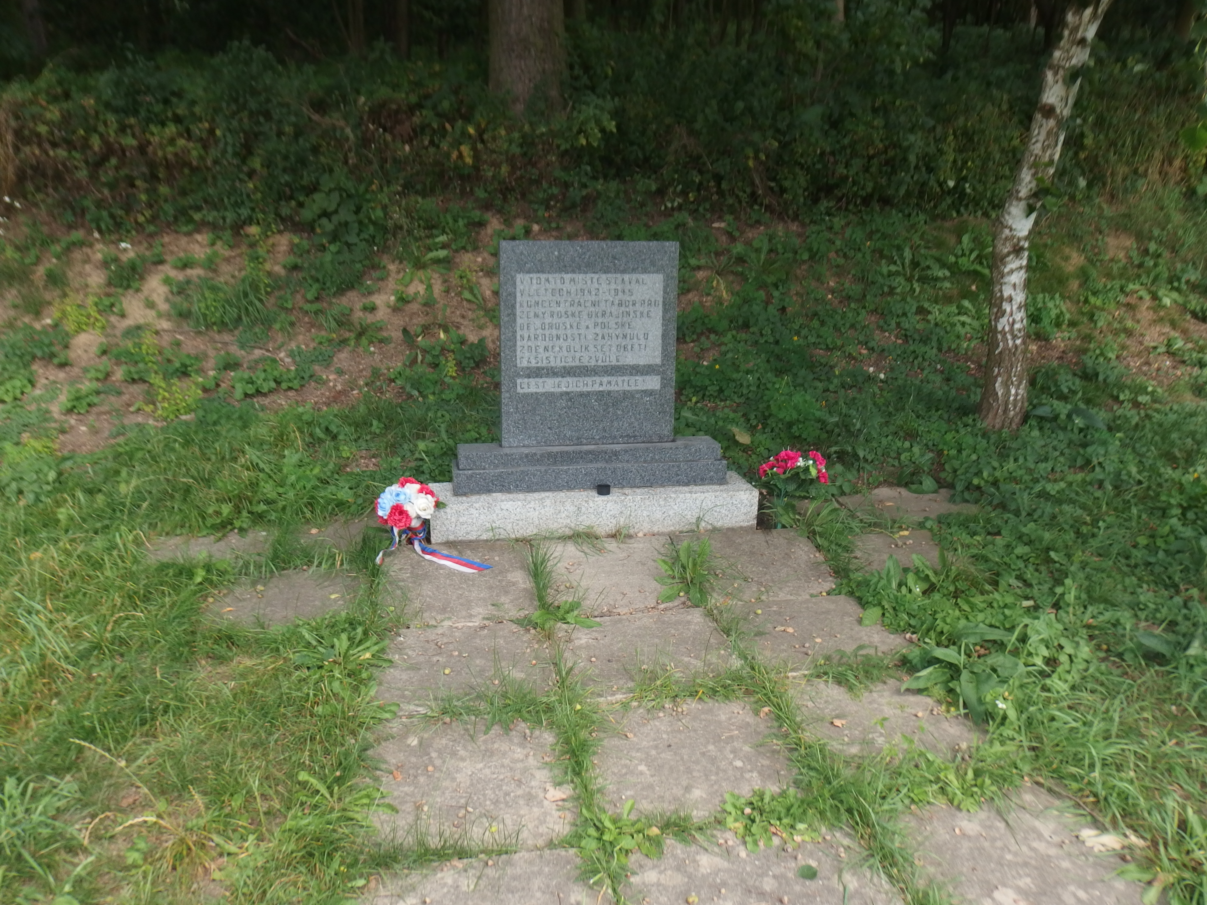 Dětřichov u Moravské Třebové, Svitavy District, Czech Republic.